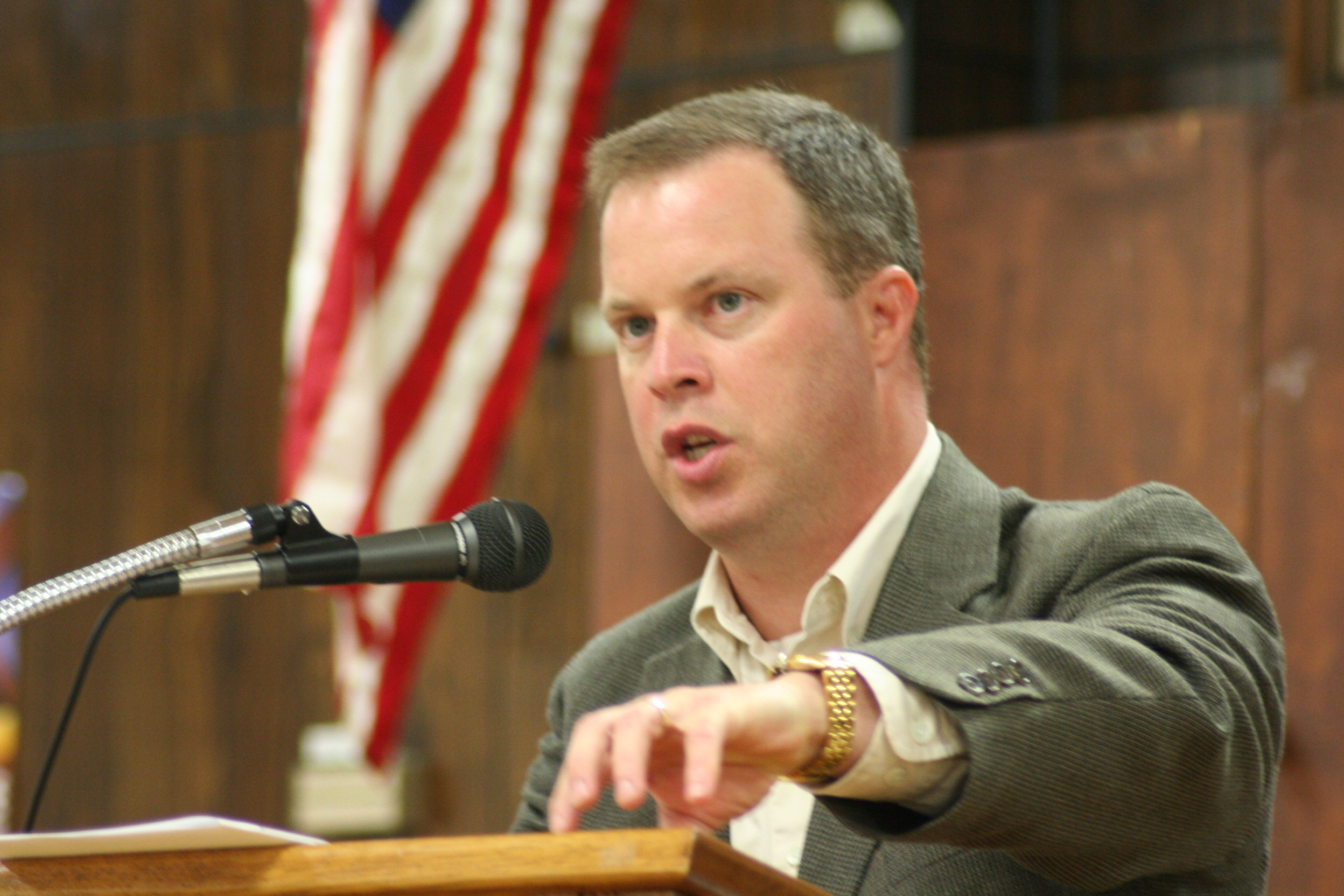 Steve Driehaus